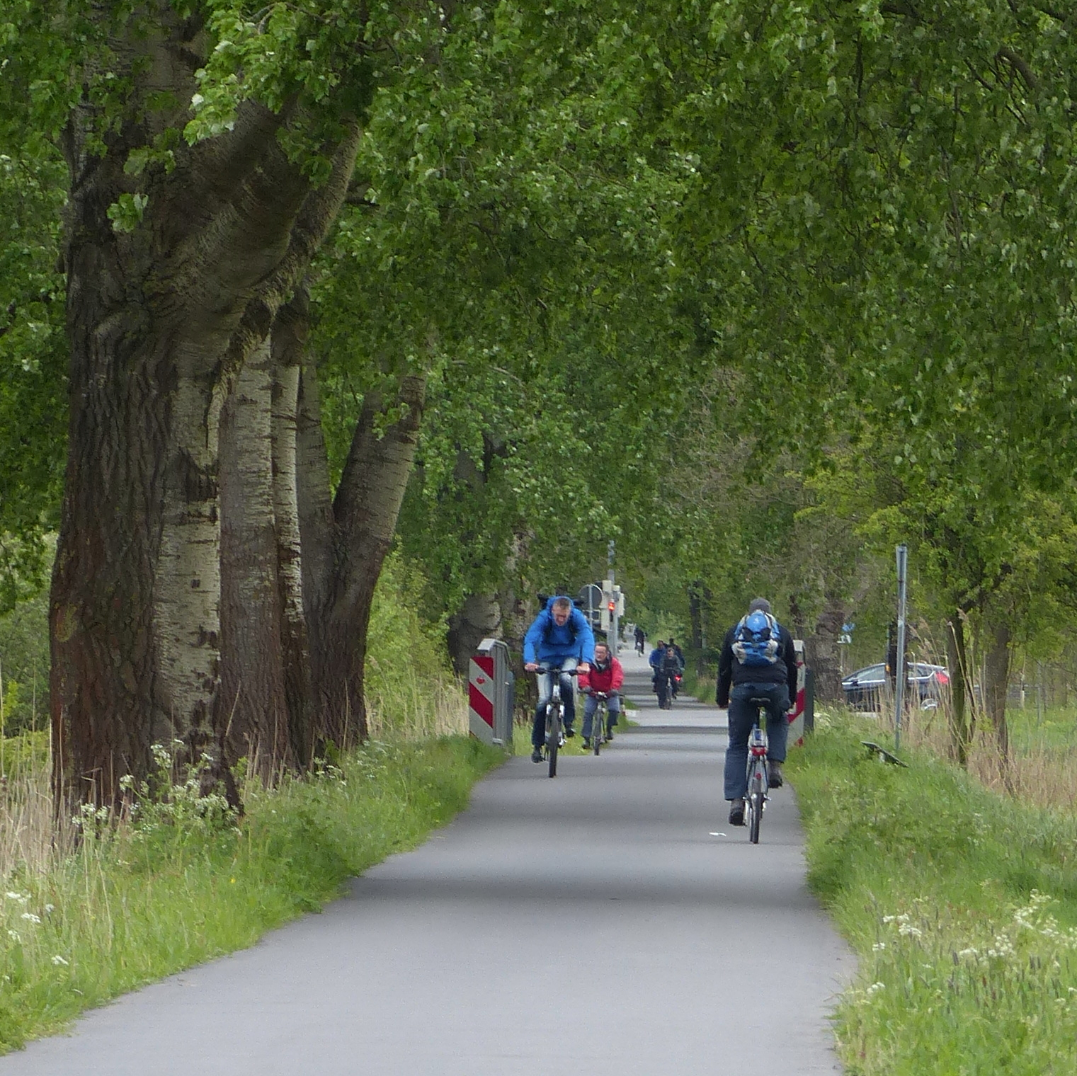 Jan-Reiners-Weg bikeway in Bremen in the end of evening rush hour (18:49)